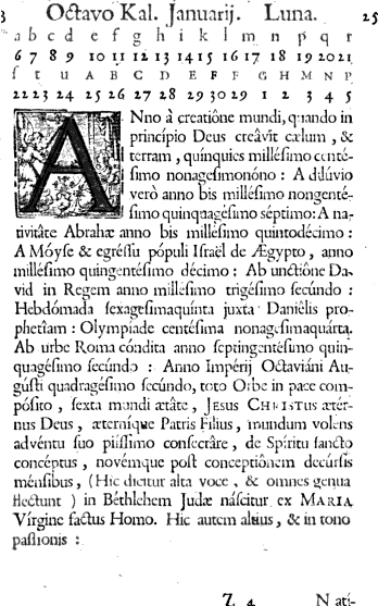 Proclamation of the birth of Christ in the Martyrologium Romanum, 1725 edition